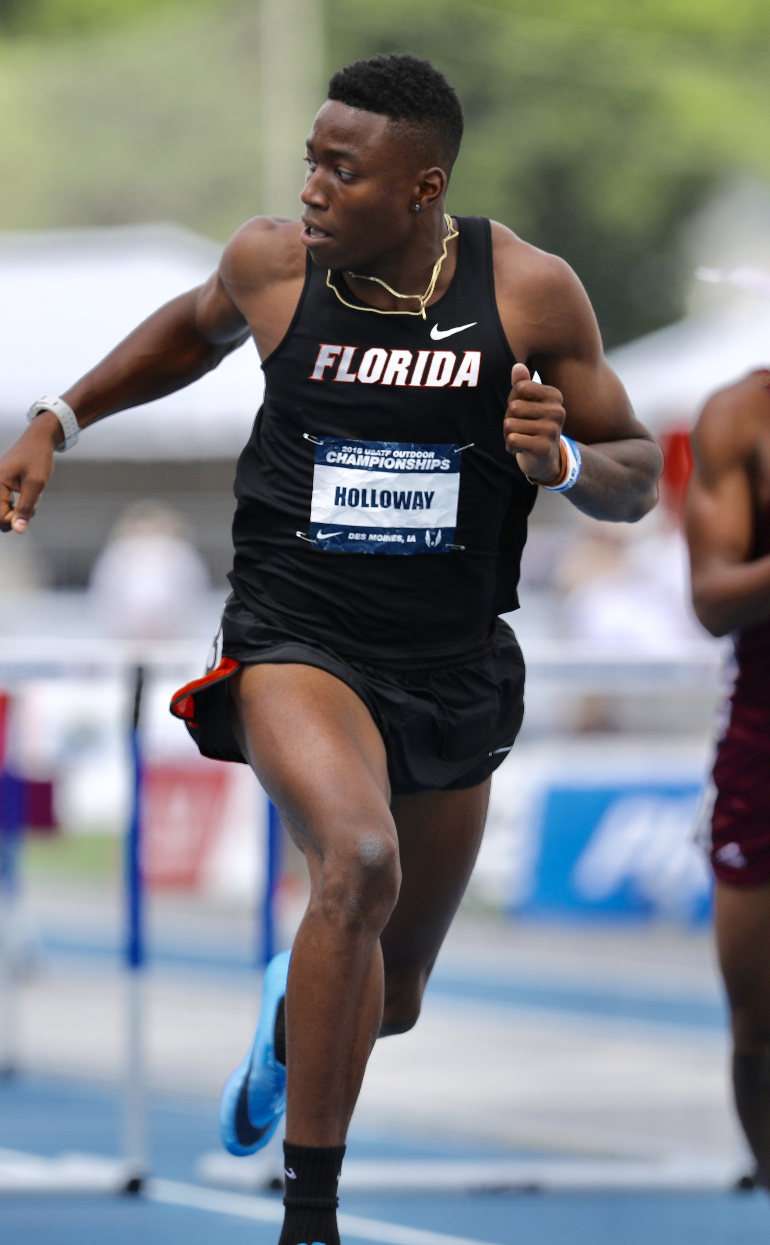 2018 USA Outdoor Track and Field Championships